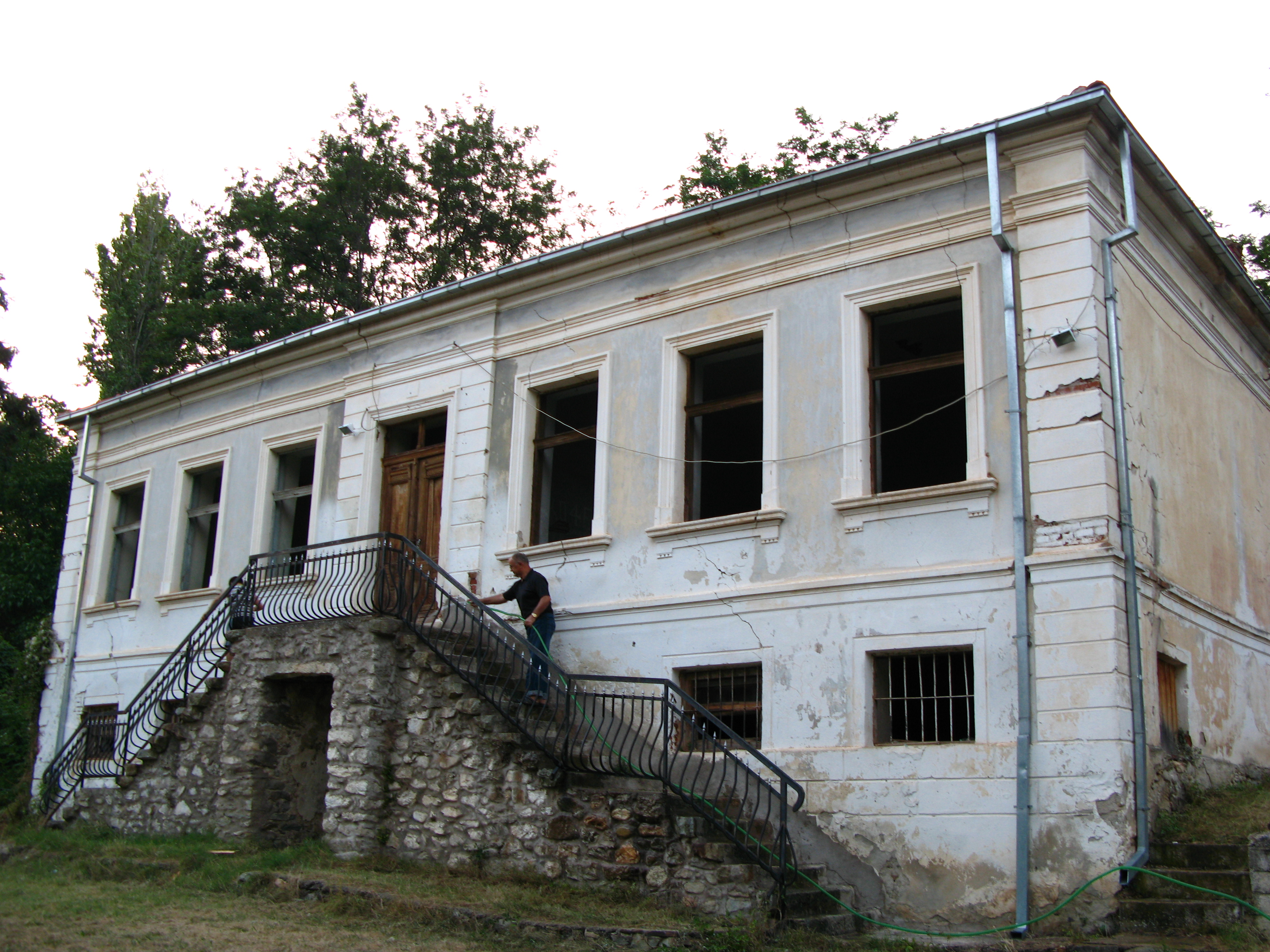 Abandoned school in village Brajčino, Macedonia.